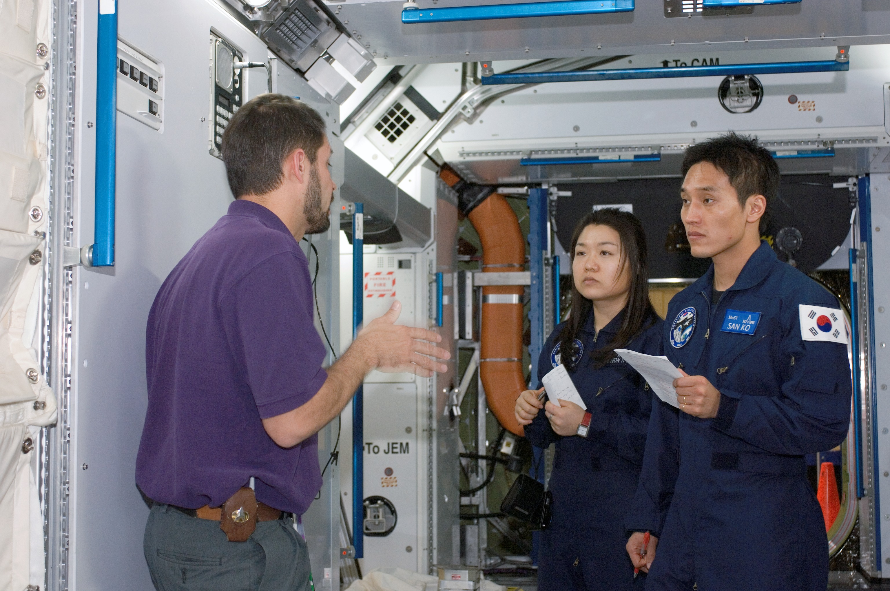 San Ko (right) and So-yeon Yi (center), South Korean prime and backup spaceflight participants, respectively, participate in a space station hardware training session in the Space Vehicle Mockup Facility at the Johnson Space Center. San is scheduled to launch with the Expedition 17 crew on the Soyuz TMA-12 spacecraft April 8 from the Baikonur Cosmodrome under a commercial agreement between the South Korean government and Roscosmos for nine days on the International Space Station; San is scheduled to return to Earth April 19 with the Expedition 16 crew. United Space Alliance (USA) instructor Glenn Johnson assisted the spaceflight participants. However, Yi Soyeon replaces his position now.